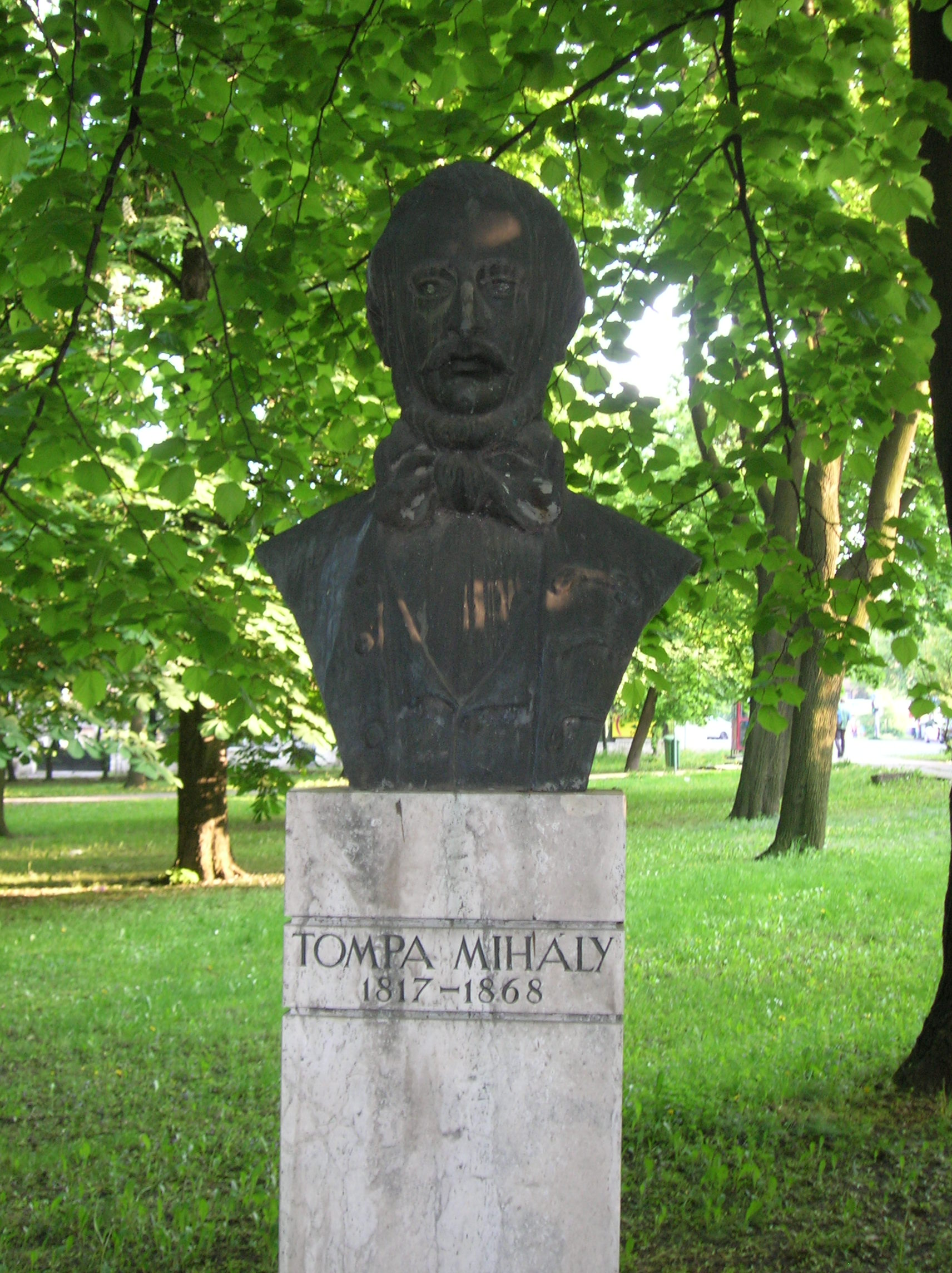 Statue of poet Mihály Tompa in the Népkert public park, Miskolc, Hungary.